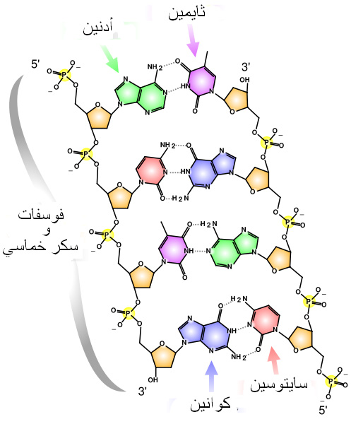 The Arabic version of Image:DNA chemical structure.svg